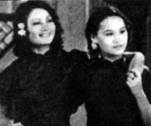 Li Lili and Chen Yanyan in 1934's 'The Big Road' Chen Yanyan (12 January, 1916 – 7 May, 1999) was a Chinese actress. She made 24 films in China up to 1937 when the war ended film making in Shanghai.